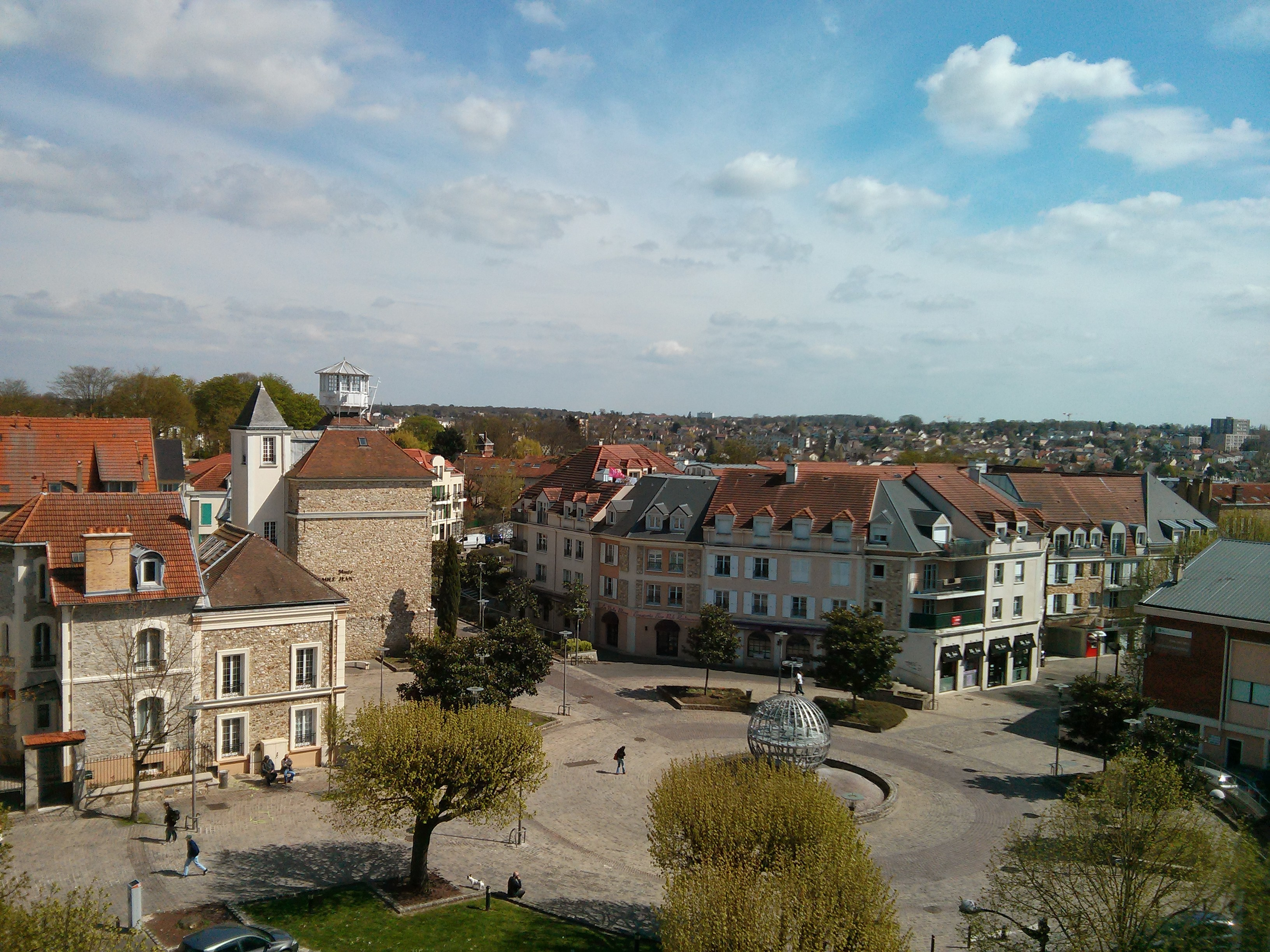 Place Rémoiville in the old city centre of Villiers-sur-Marne, France